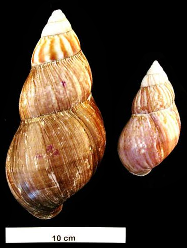 Photo of two shells of Achatina fulica showing two adult shells. Locality: Papua New Guinea, Keravat, New Britain, Jun 1951, Dun.